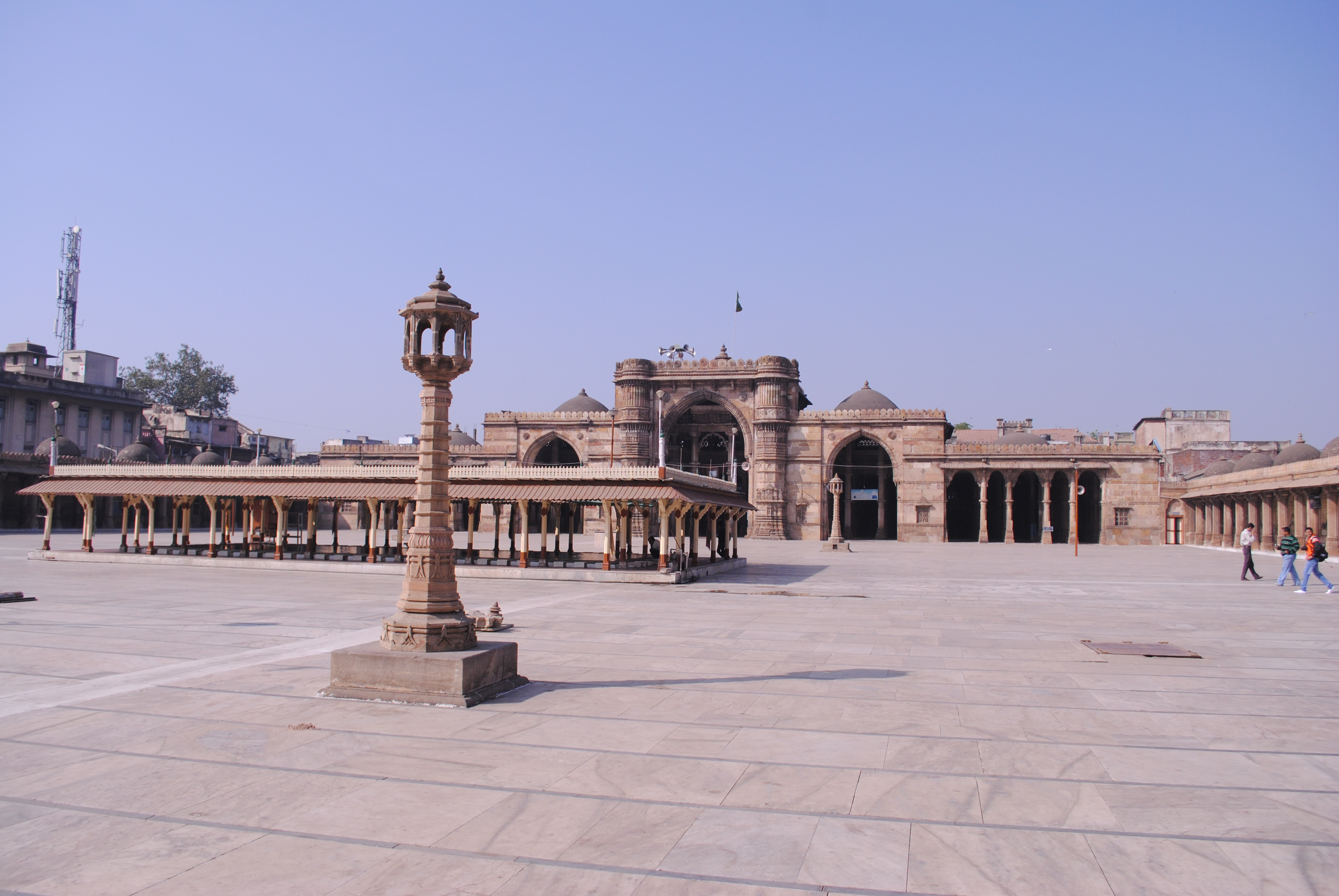 jama masjid